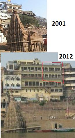 Responsible development ___________________________ 7/147 Sidheswari Chowk - The constructions located on the northern side of this building are illegal (as also stated in at Serial no. 24 in VDA affidavits presented by VDA to the Allahabad High Court, dated 3 Dec 2012 and 24 Jan 2013) Despite VDA issuing demolition orders for this illegal construction on 27 March 2002, the illegal construction continues to exist since 11 years. See also: In Wikinews ⇒ Litigation for Varanasi Heritage intensifies In Wikiversity ⇒ The Varanasi Heritage Dossier